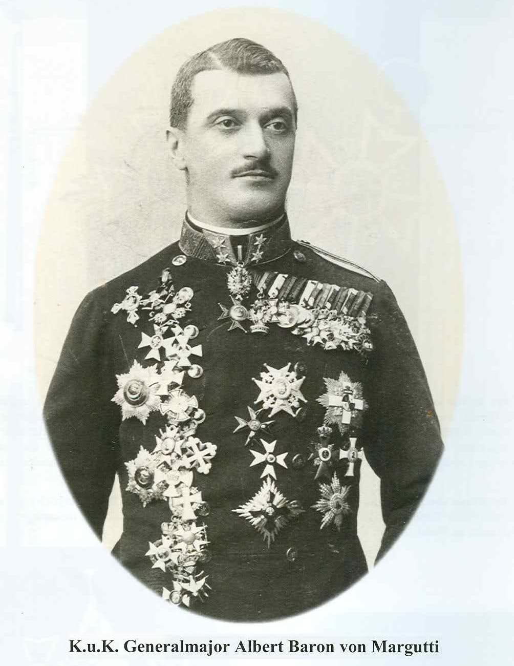 Portrait of Albertt von Margutti